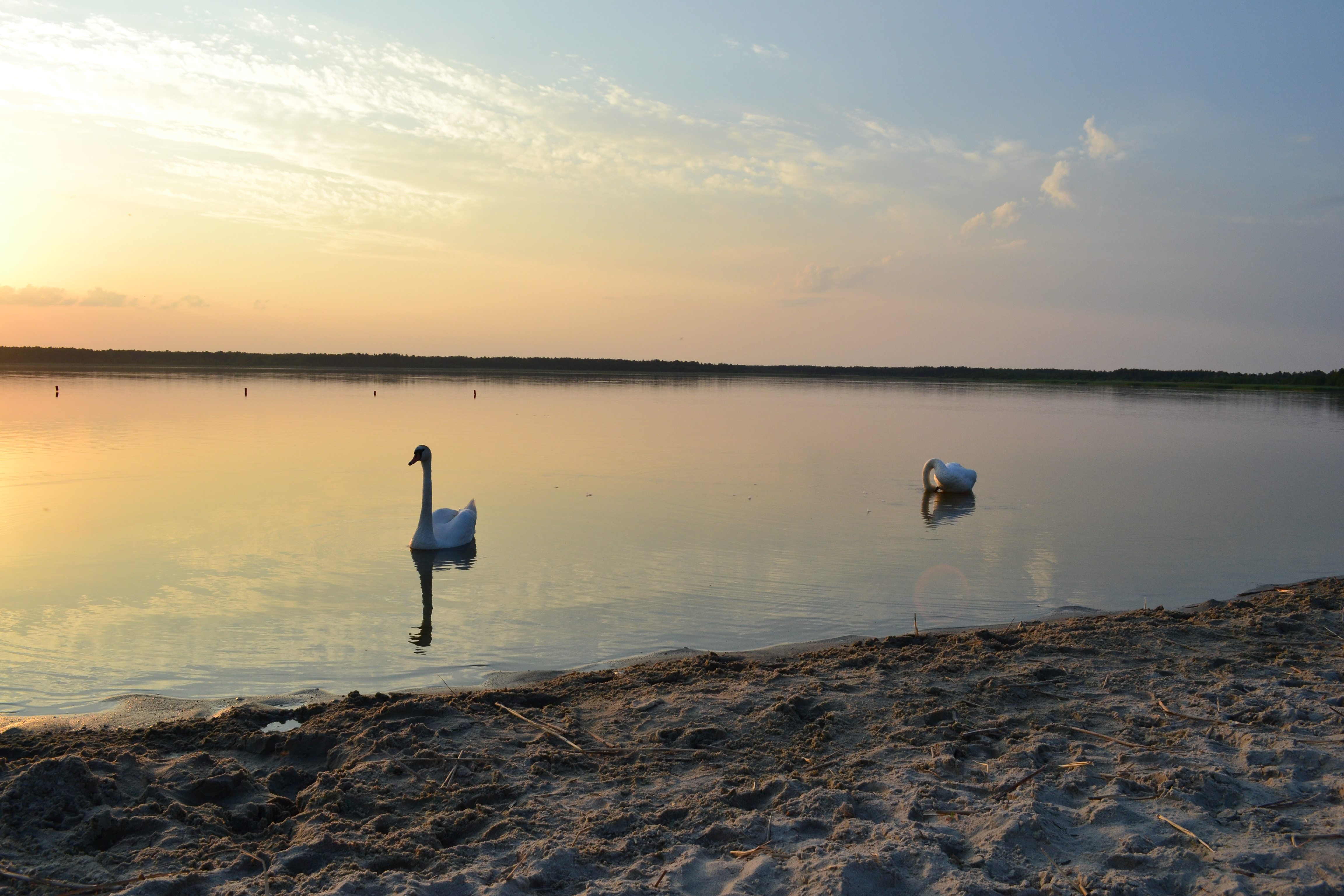 Swans on the Big Zhoranske Lake